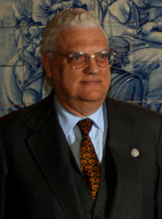 Diogo Freitas do Amaral, former Minister of Foreign Affairs of Portugal